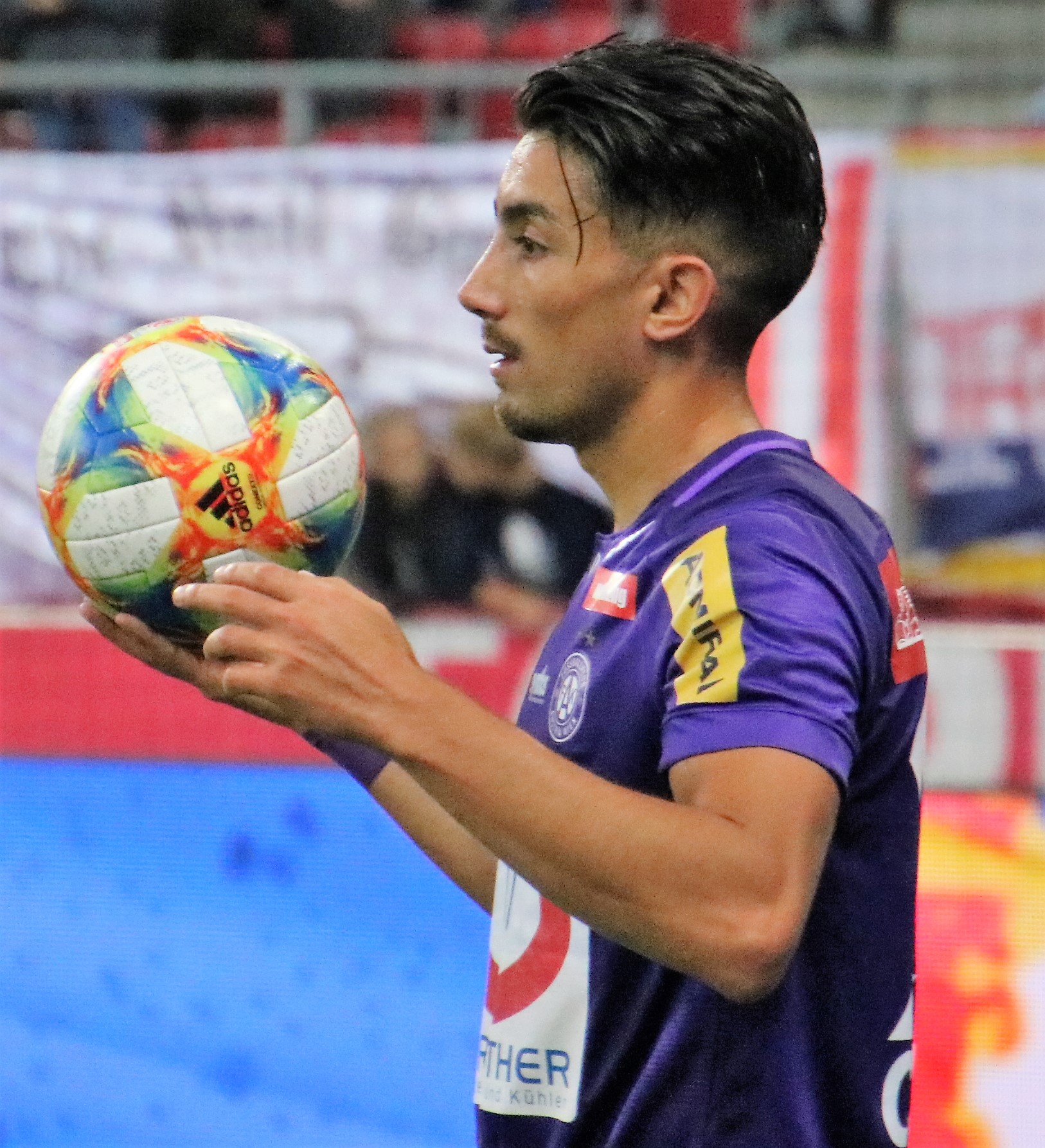 league match Austrian Bundesliga